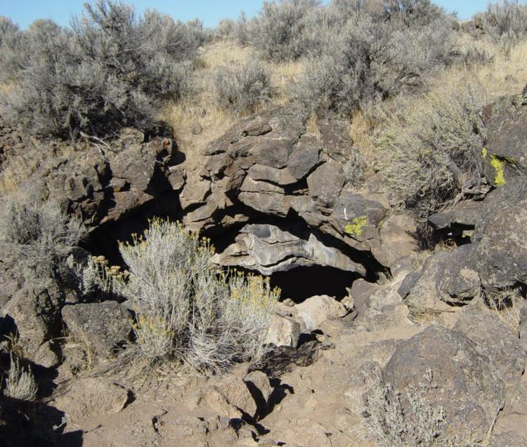 Cave at Captain Jack's Stronghold. Avalanche_Gulch_on_Mt_Shasta-1200px.JPG My own image.